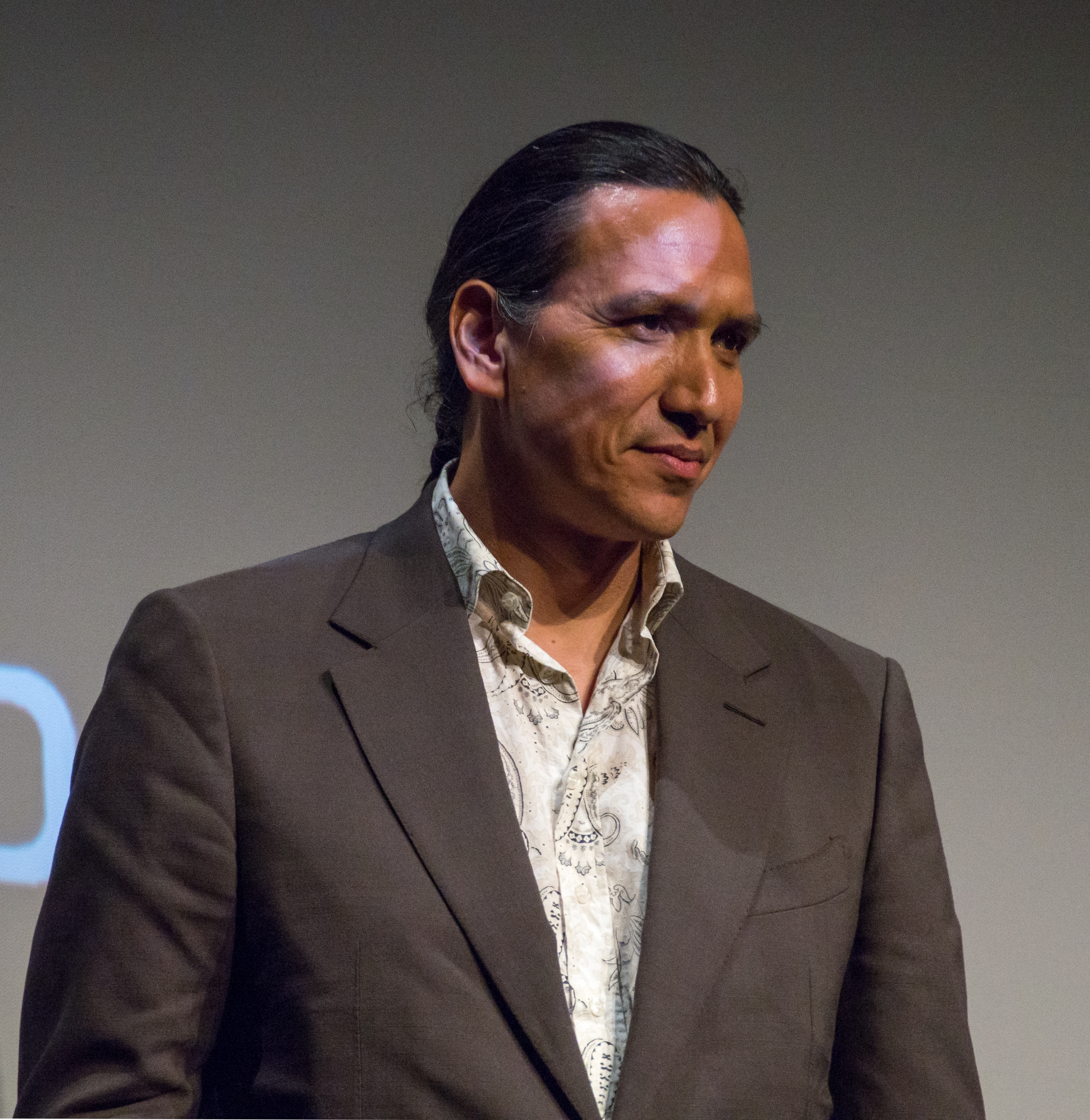 Michael Greyeyes during a discussion following the U.S. premiere of Woman Walks Ahead at the 2018 Tribeca Film Festival. OLYMPUS DIGITAL CAMERA